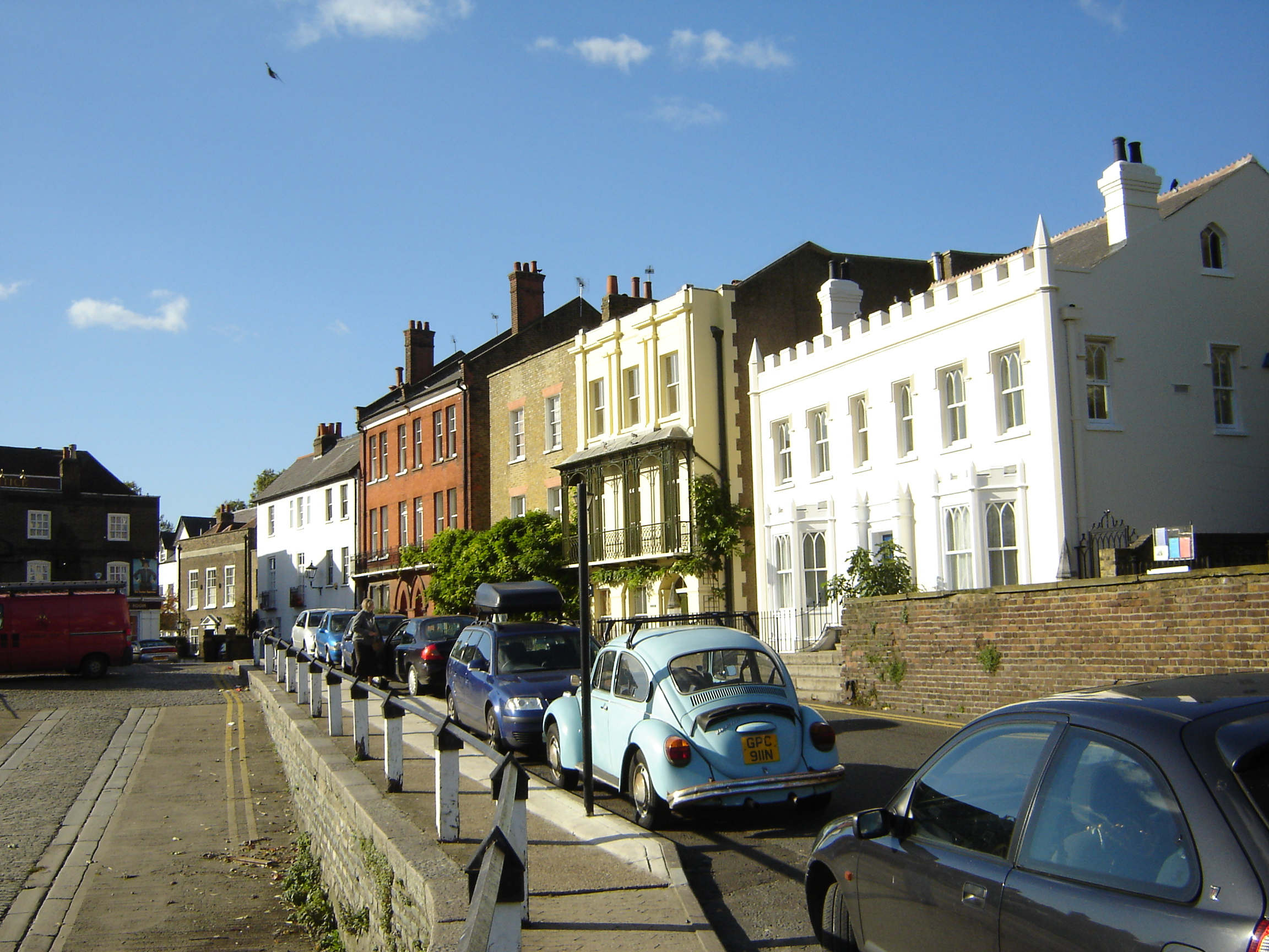 Old Isleworth by the river